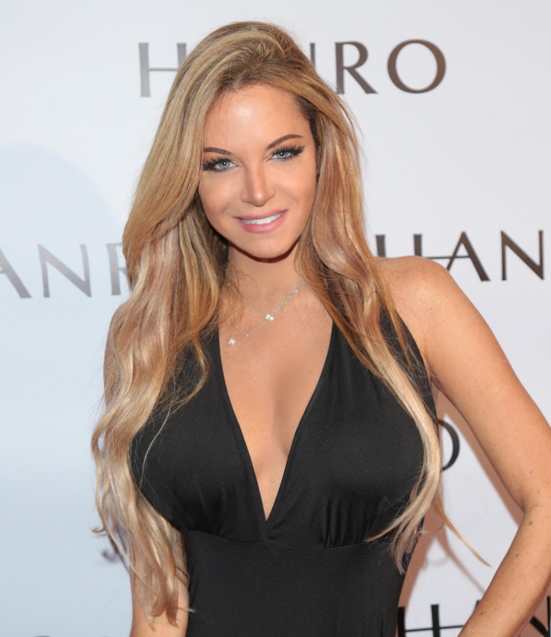 Wendy Starland 2018